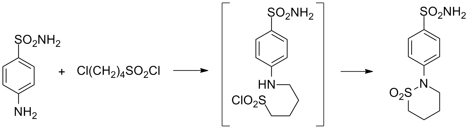 B. Helferich and R. Behnisch, U. S. Patent 2,916,489 (1959).